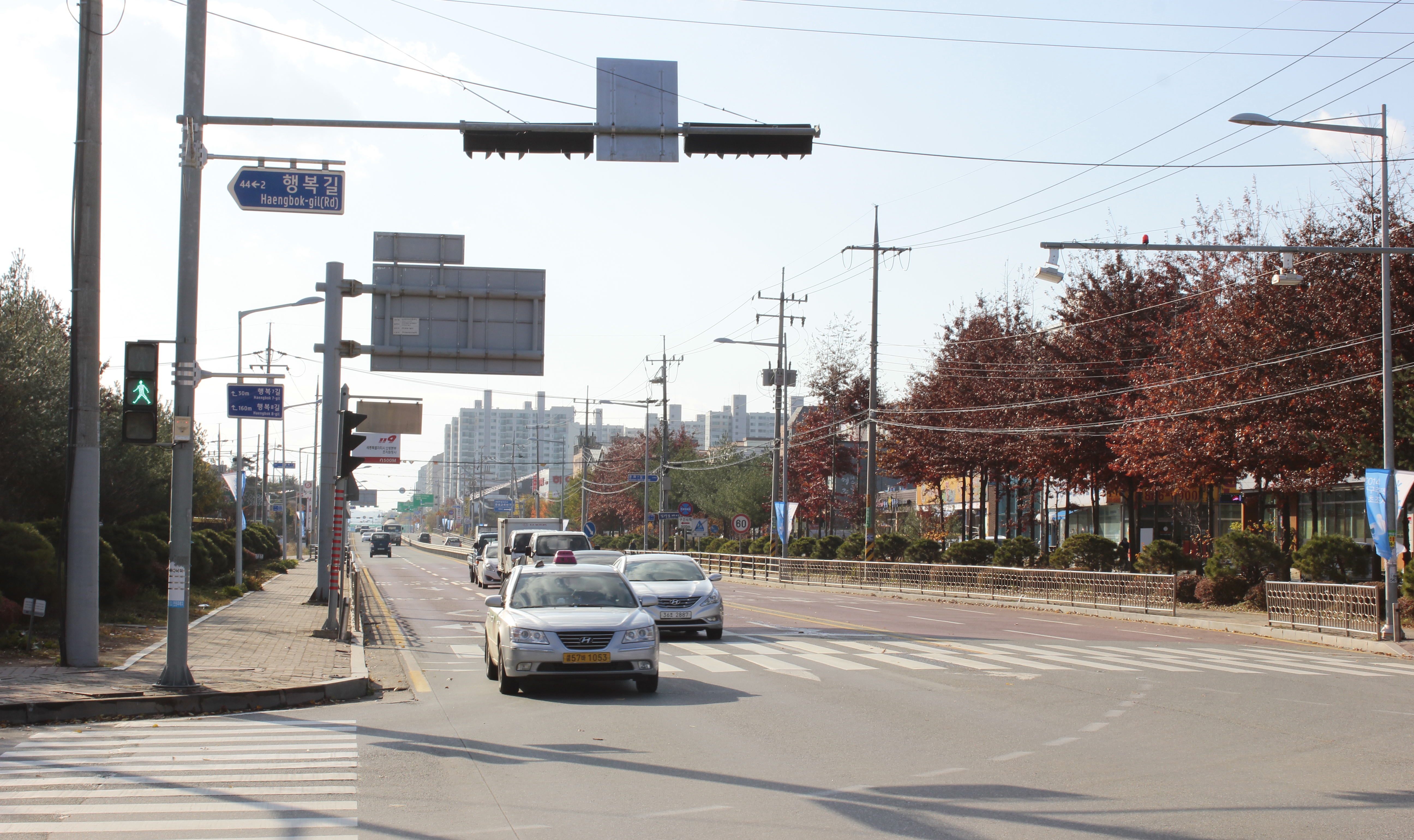 Sejong, South Korea